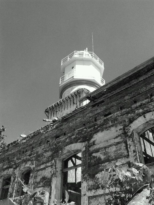 Black and white photo of the Lighthouse in Capones Island, Zambales